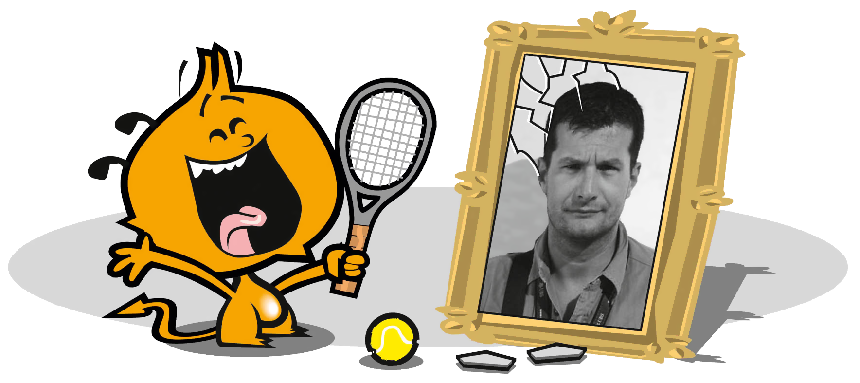 Nelson, titular hero of the Swiss comic book series Nelson, created by Christophe Bertschy.